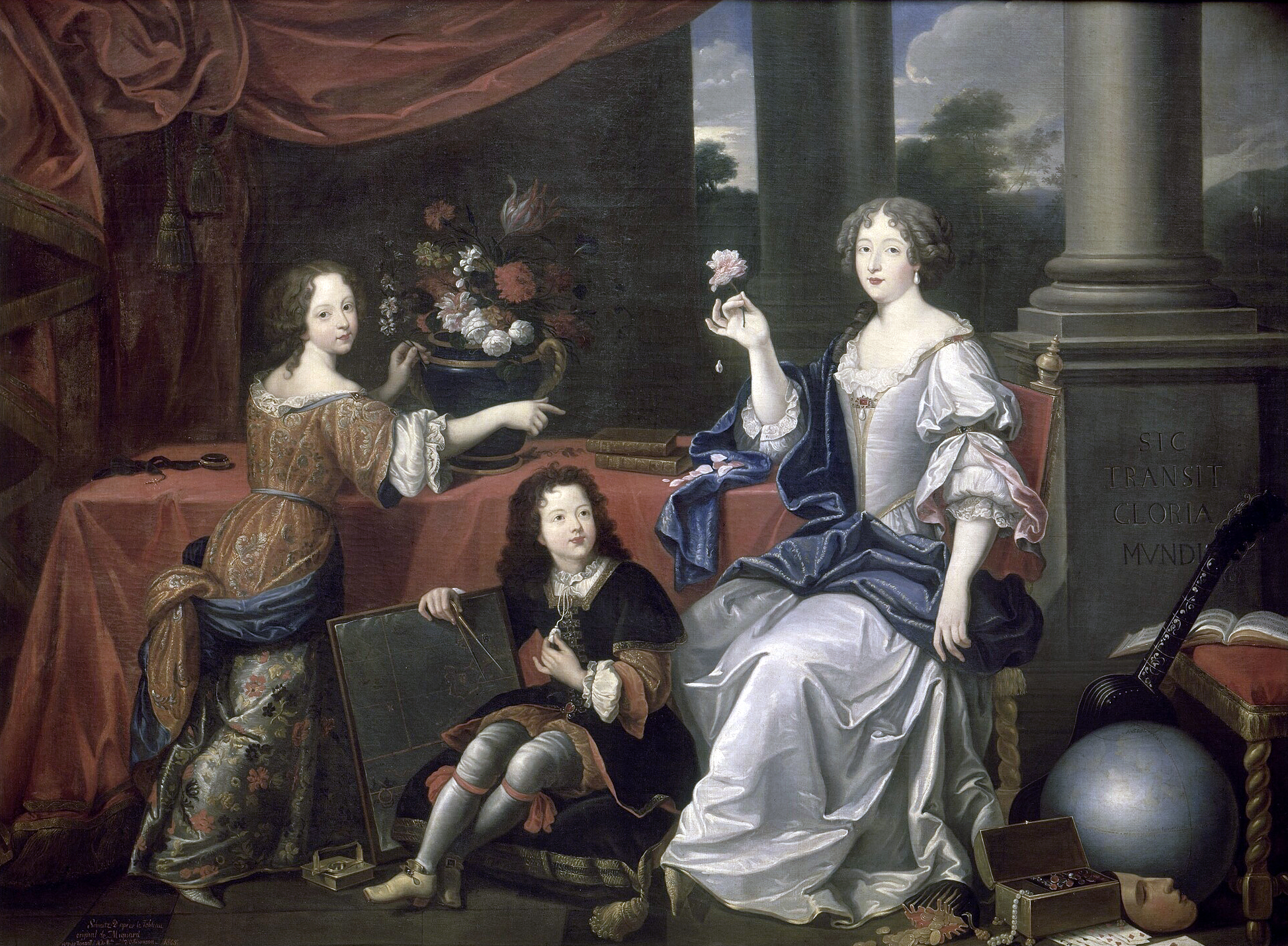 Portrait of Louise de La Vallière, one of Louis XIV's mistresses, with her children from the king (Marie Anne and Louis, Count of Vermandois).